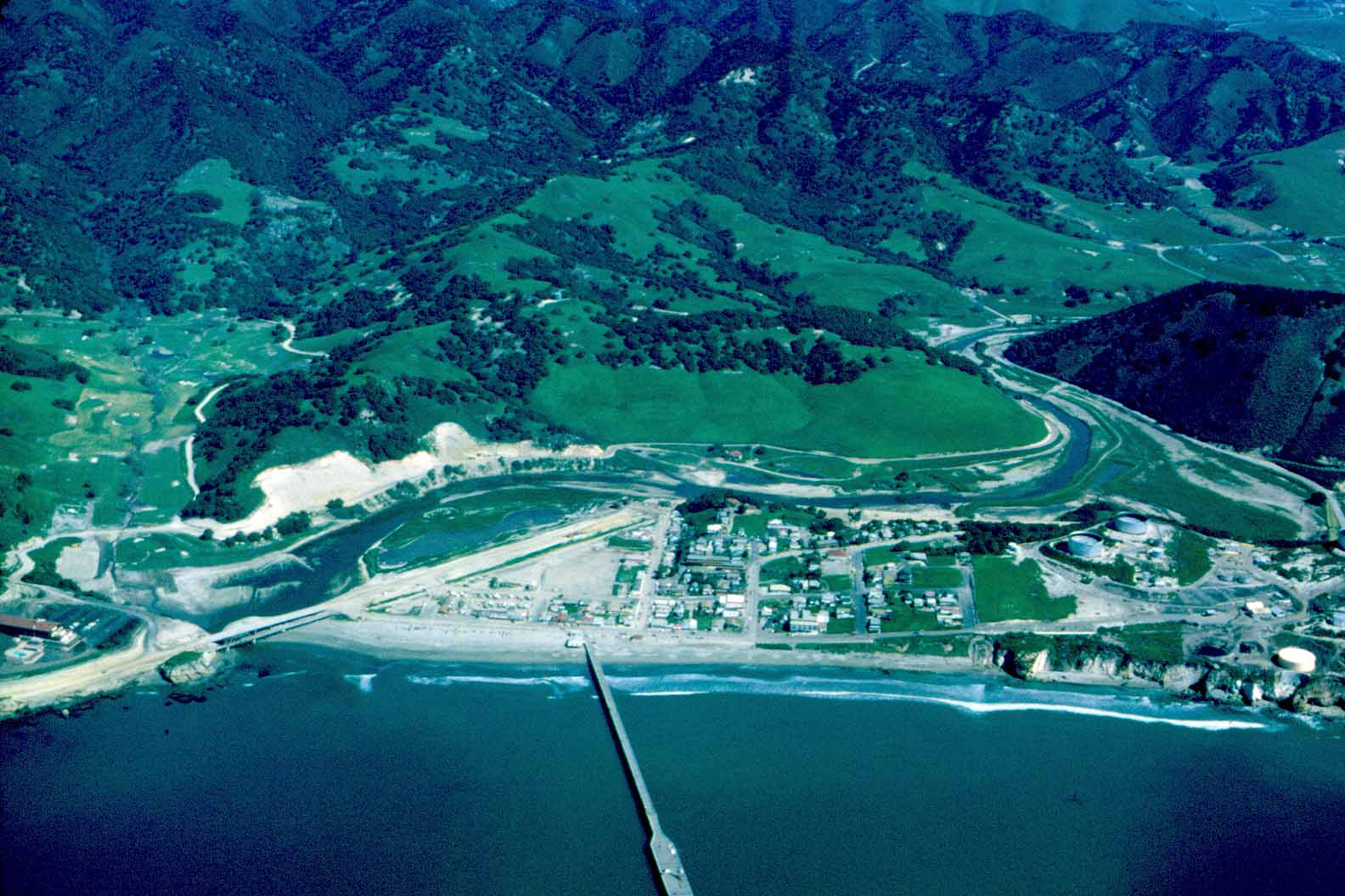 CDFW photo by J. Speth.